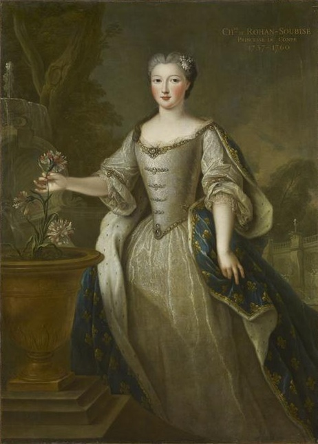 Depicted person: Portrait de Caroline de Hesse-Rheinfels, duchesse de Bourbon, princesse de Condé (1714-1741) – according to Nicole Garnier-Pelle (1995), a former hypothesis was that it was "Charlotte" Elisabeth Godefried de Rohan, princesse de Condé (1737–1760).